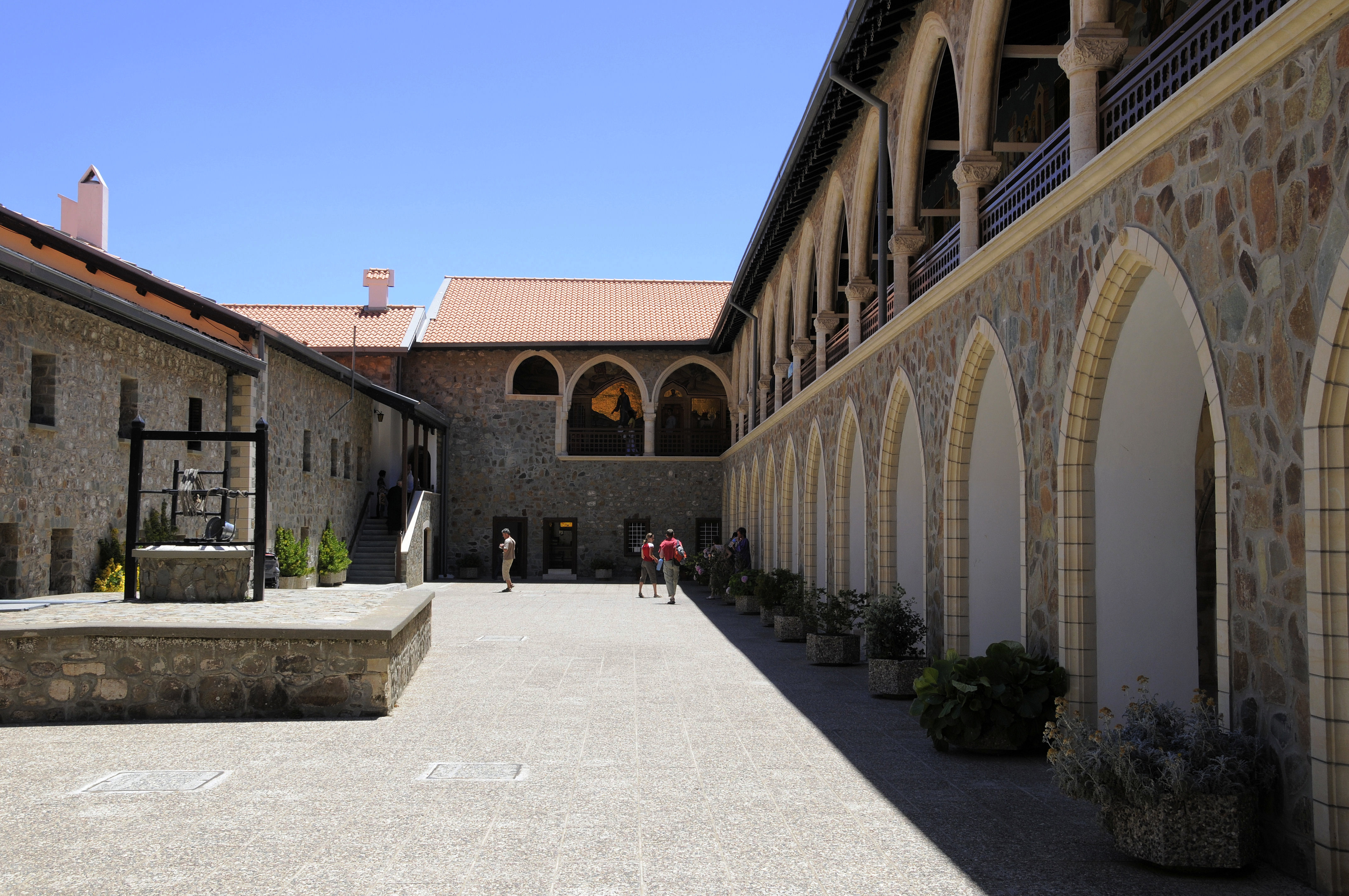 The Kykko Monastery is one of the main reasons people visit the Troodos Mountains.